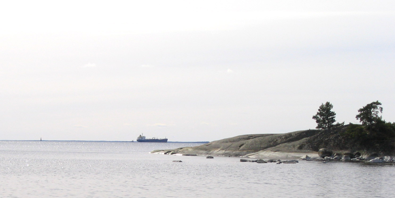 View from peninsula Fittjö outside Oskarshamn, Sweden.